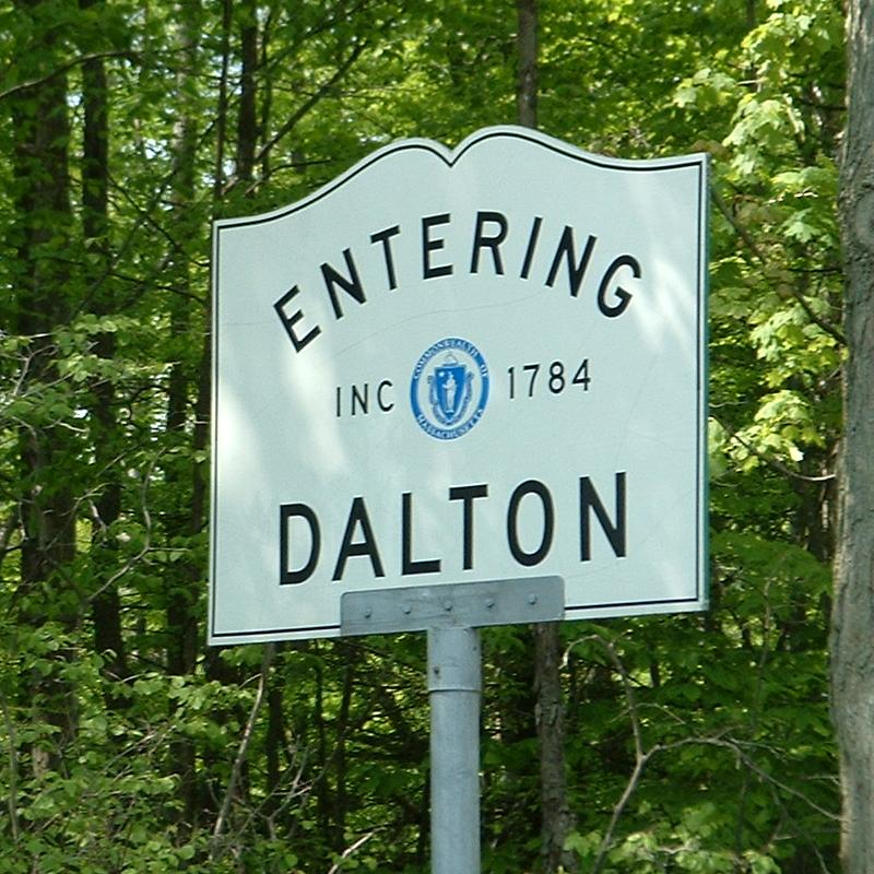 Entering Dalton, Inc. 1784 Dalton-Hinsdale town line, Route 8, Massachusetts.